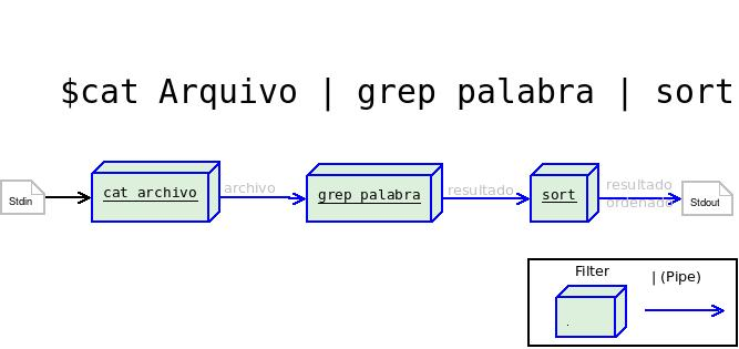 Pipeline in GNU/Linux e UNIXGalego: Funcionamento do pipeline ou canalizacións en GNU/Linux e UNIX